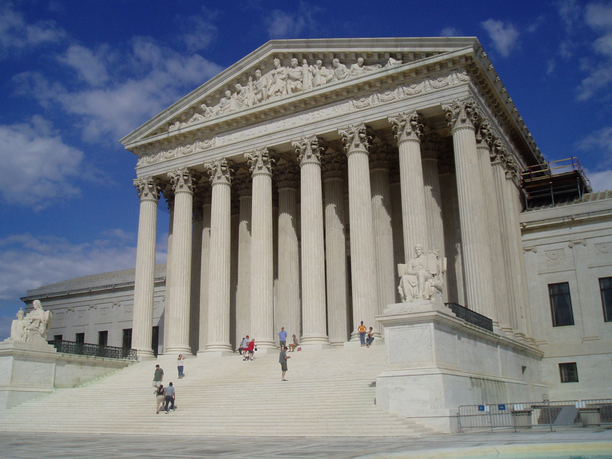 Front façade of the United States Supreme Court Building